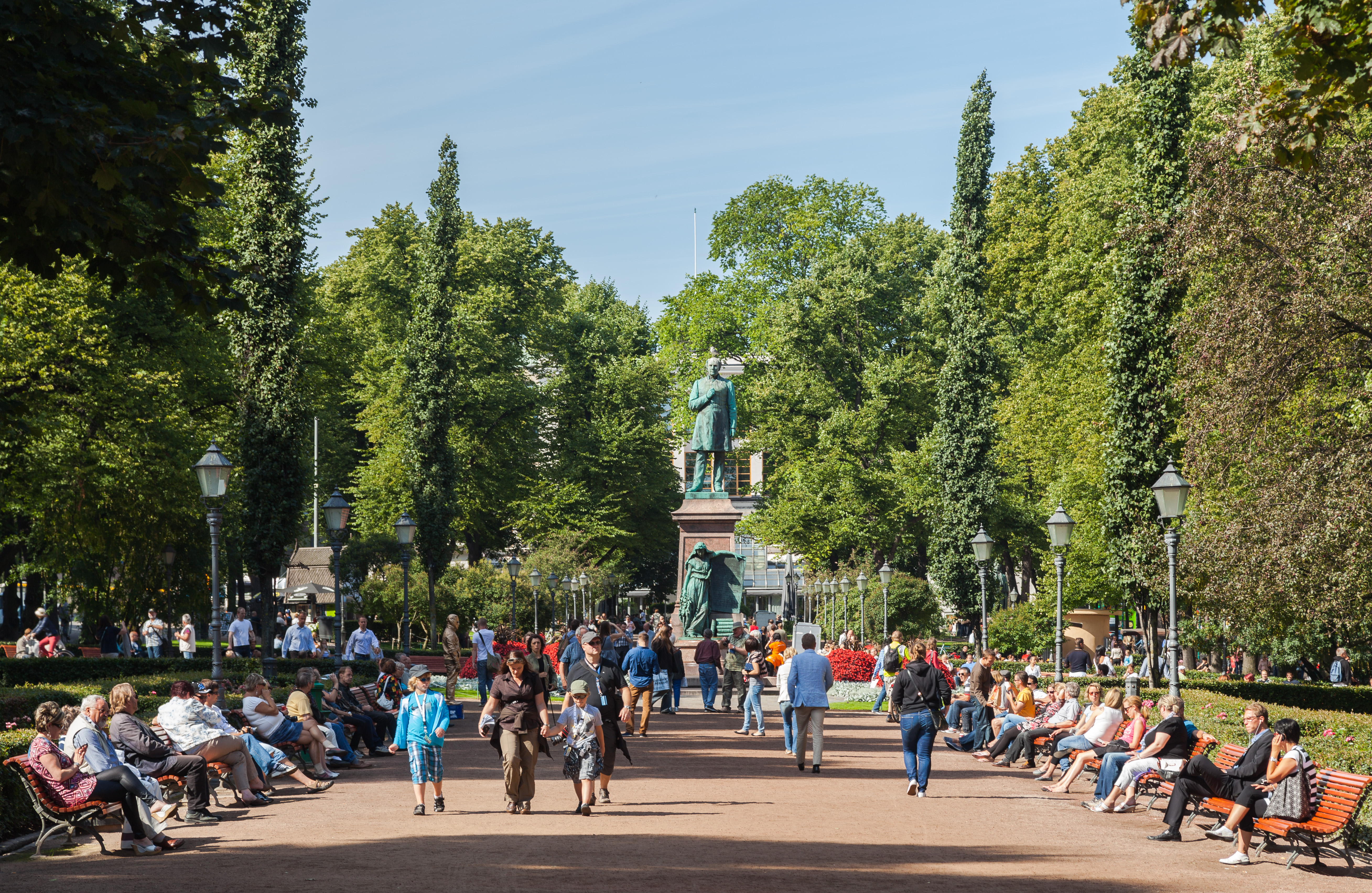 Statue of Johan Ludvig Runeberg, Helsinki, Finnland